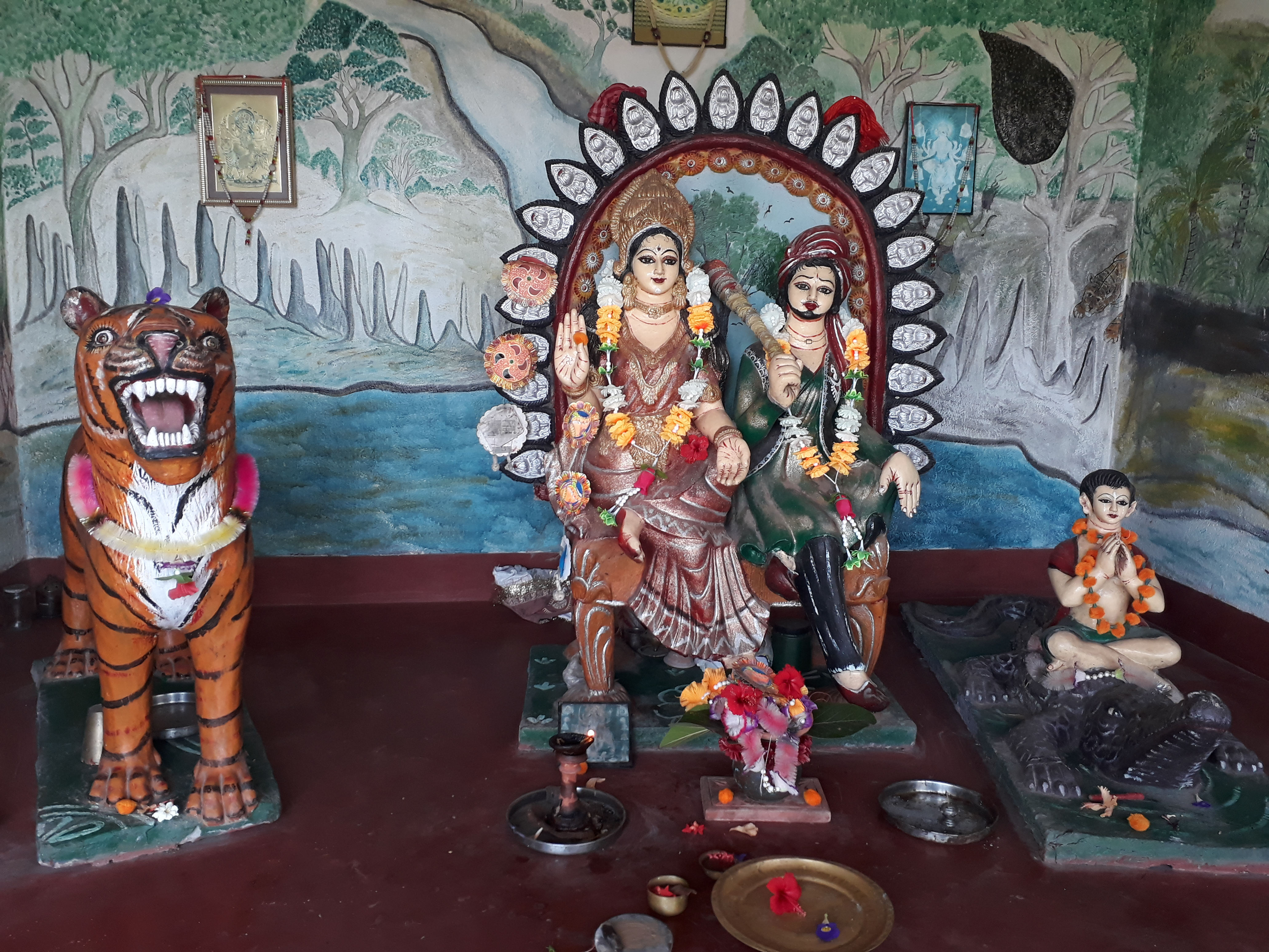 Bonobibi in Sundarban, West Bengal